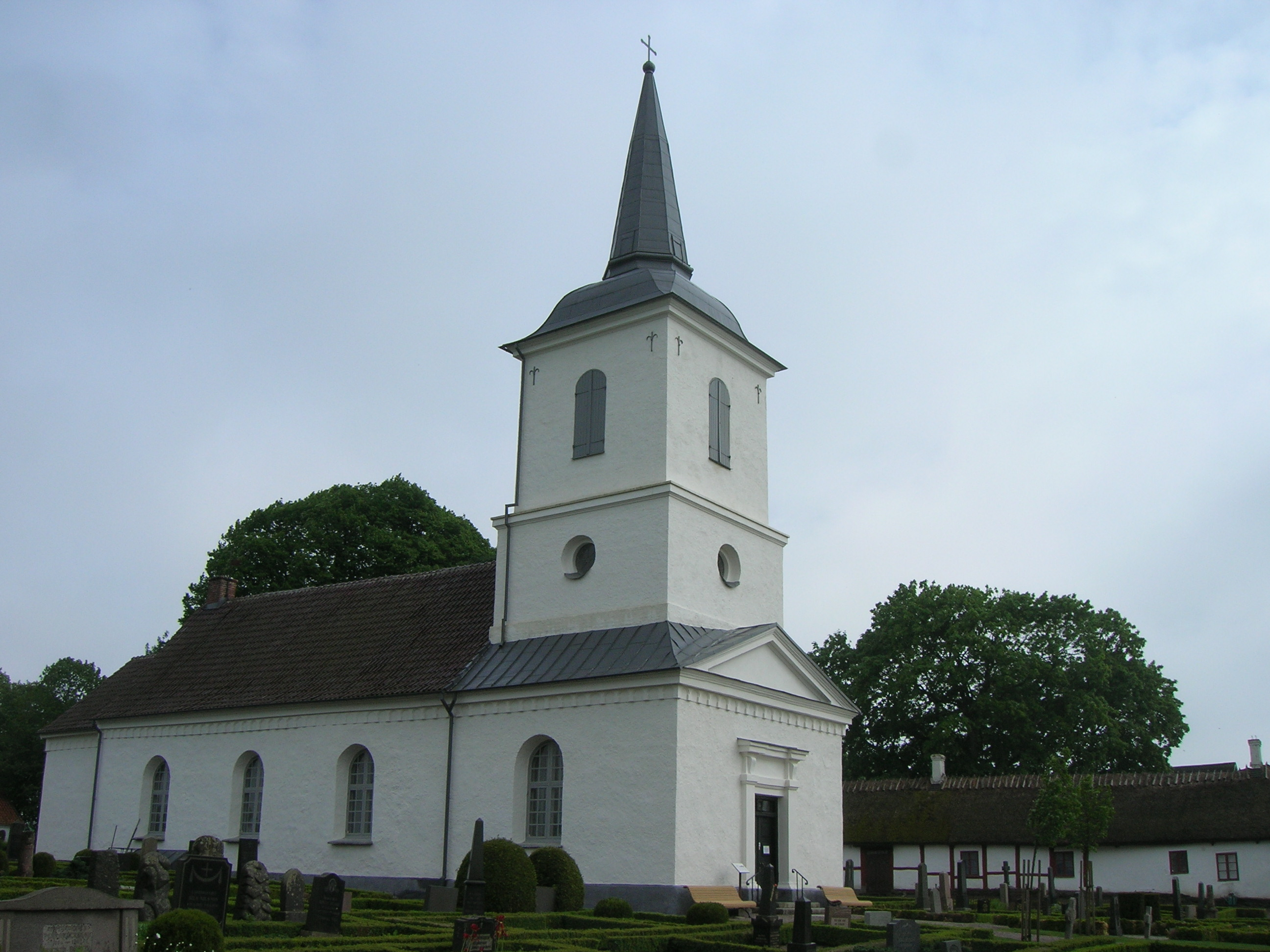 Brandstad Church, Sjöbo Municipality, Scania, Diocese of Lund, Sweden.